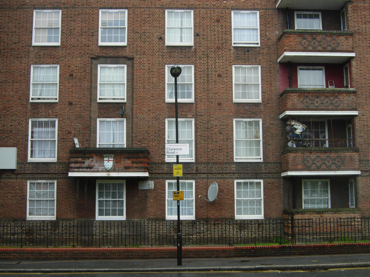 The Pembury Estate, a small part of which facing Clarence Road is seen here, was developed from the 1930s by London County Council. It eventually passed to Hackney Borough Council and in 2000 to the Peabody Trust. A fortnight before this photograph was taken the estate achieved notoriety in the national press as the epicentre of the wave of rioting and looting that struck the Hackney area and subsequently spread to other parts of London and to other cities.